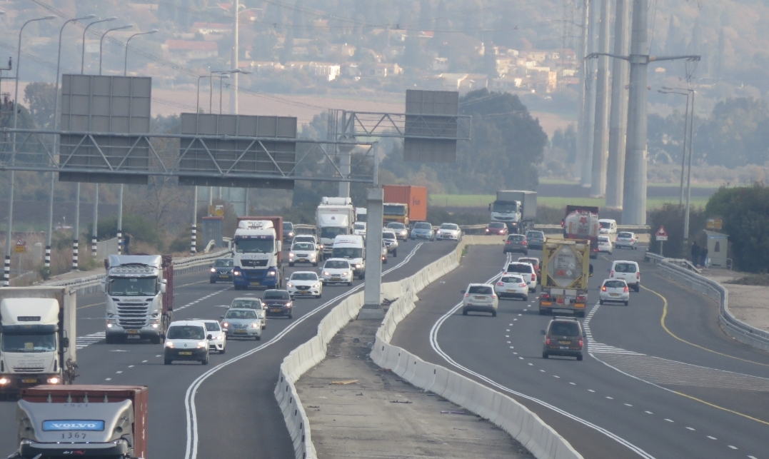 Highway75